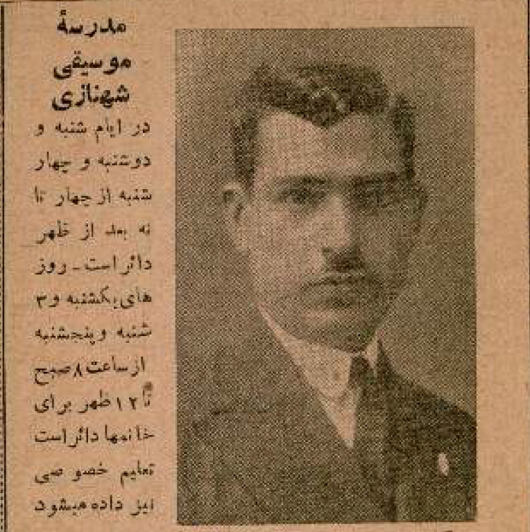 Ali Akbar Shahnazi